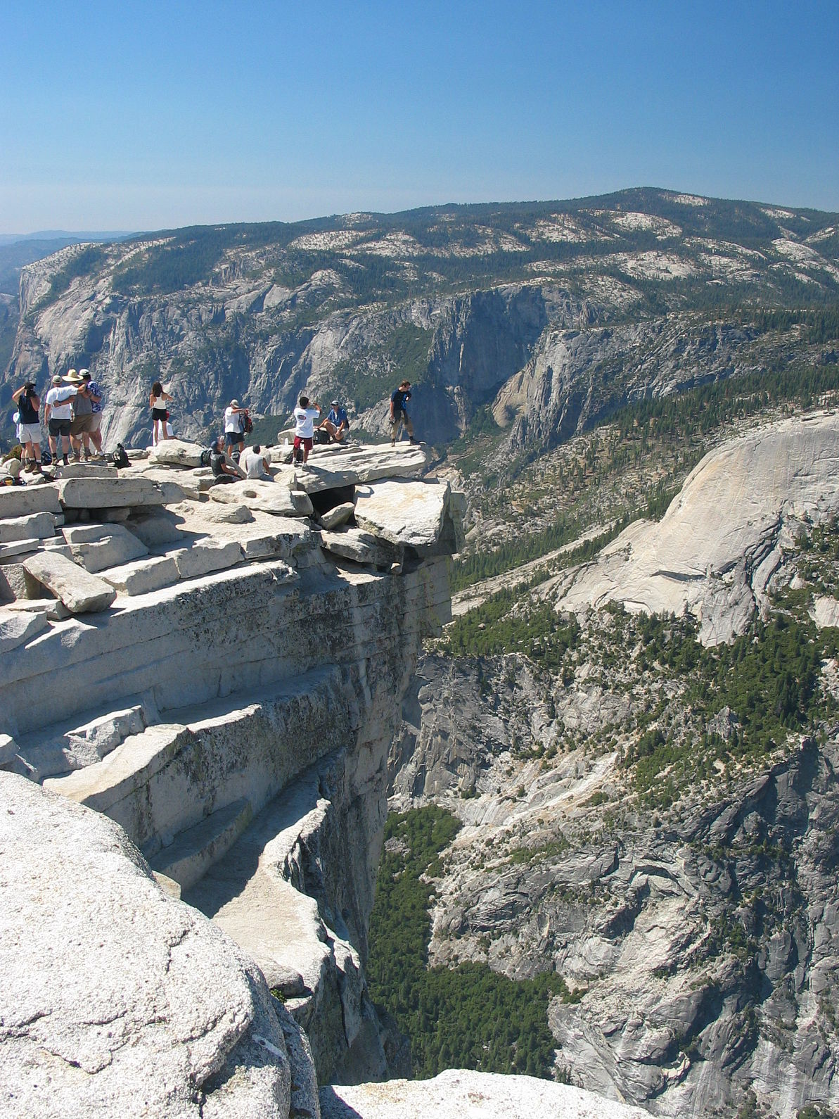 On top of Half Dome looking down at Yosemite Valley.